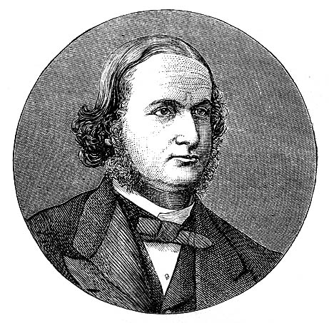 Gustav Robert Kirchhoff (1824-1887)